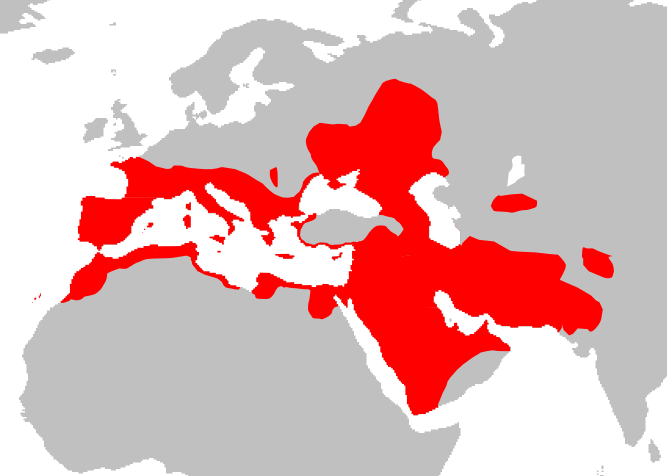 Pipistrellus kuhlii range map.